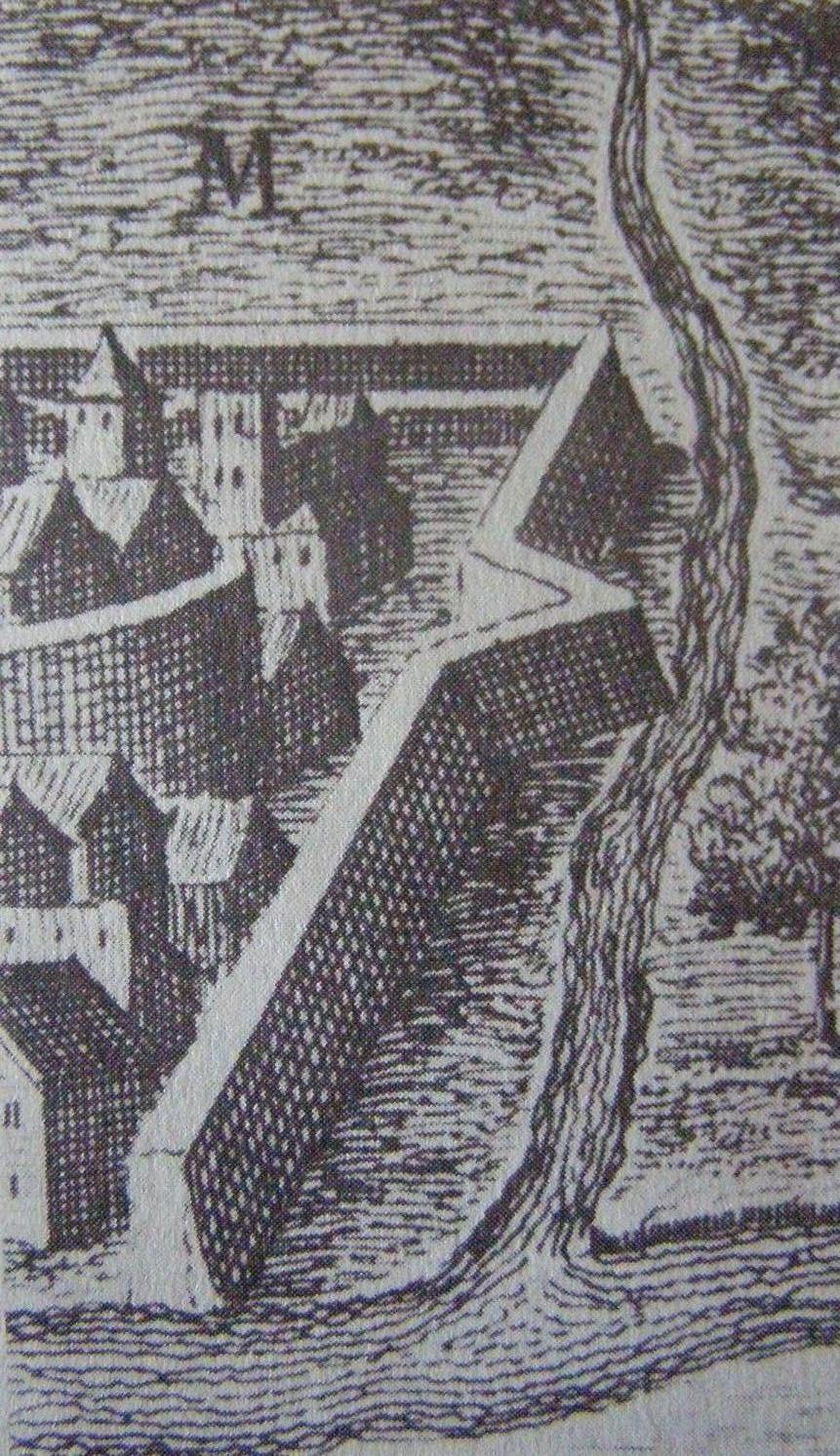 The cutting of the St. Gotthard Abbey (detail)